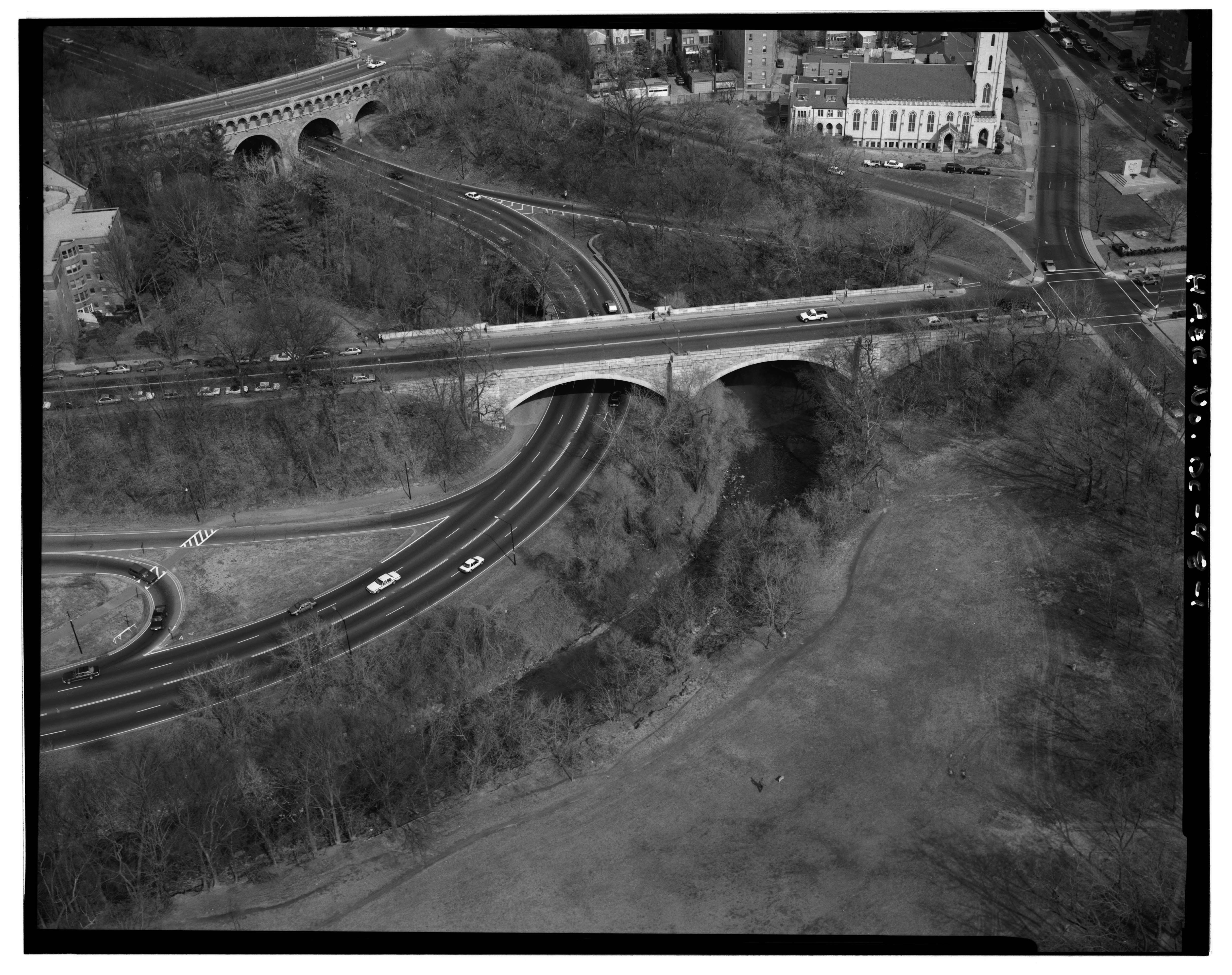 1. AERIAL VIEW OF P STREET BRIDGE AND 'P STREET BEACH,' LOOKING NORTH (Q STREET BRIDGE IN BACKGROUND) HAER DC,WASH,592-1